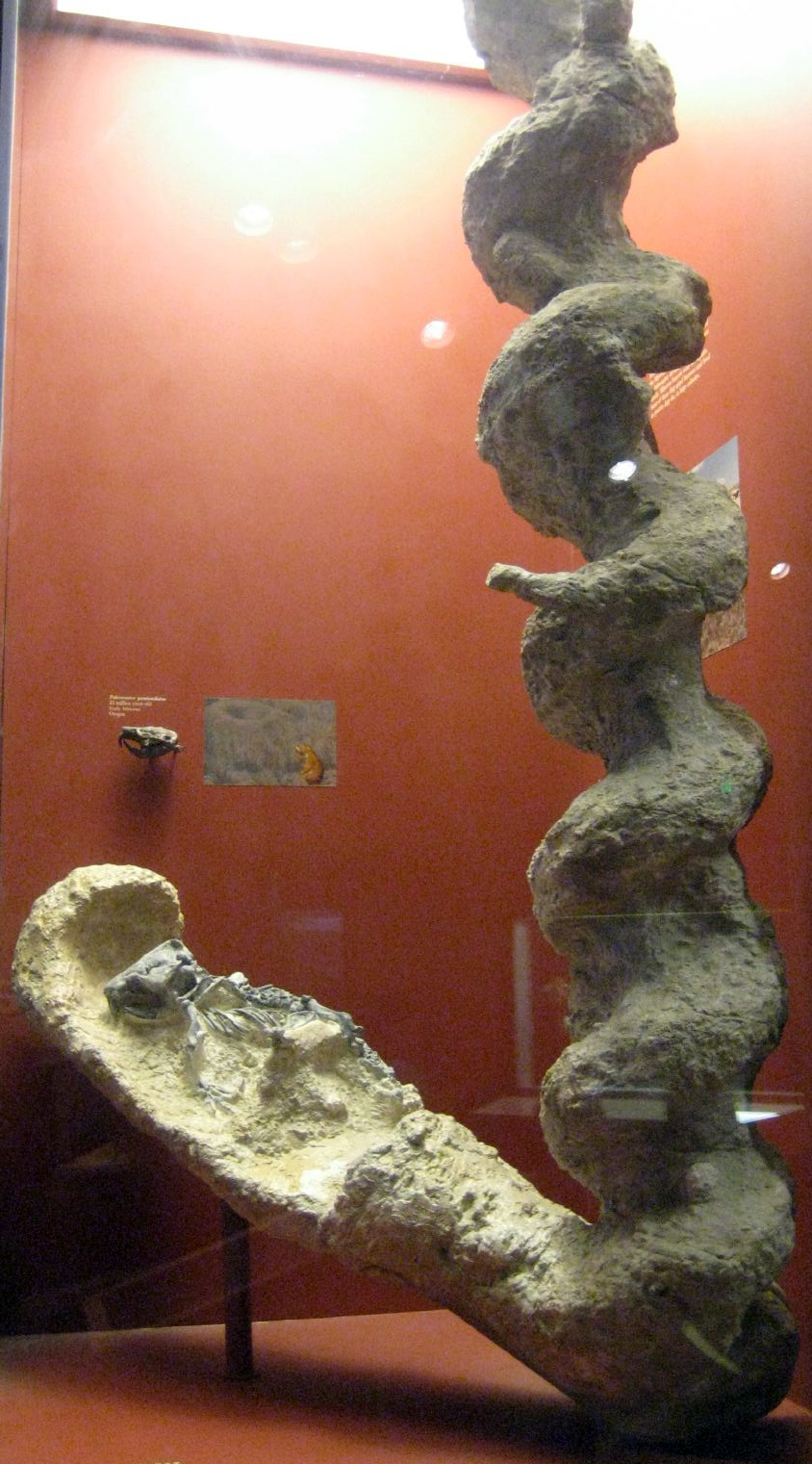 23 million years old Early Miocene This fossil depicts a beaver in natural cast of the burrow it had made.